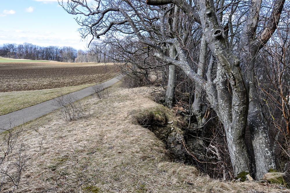 The very edge of the Swabian Alb, fields at the left side, the slope of about 200 meters hight at the right side.